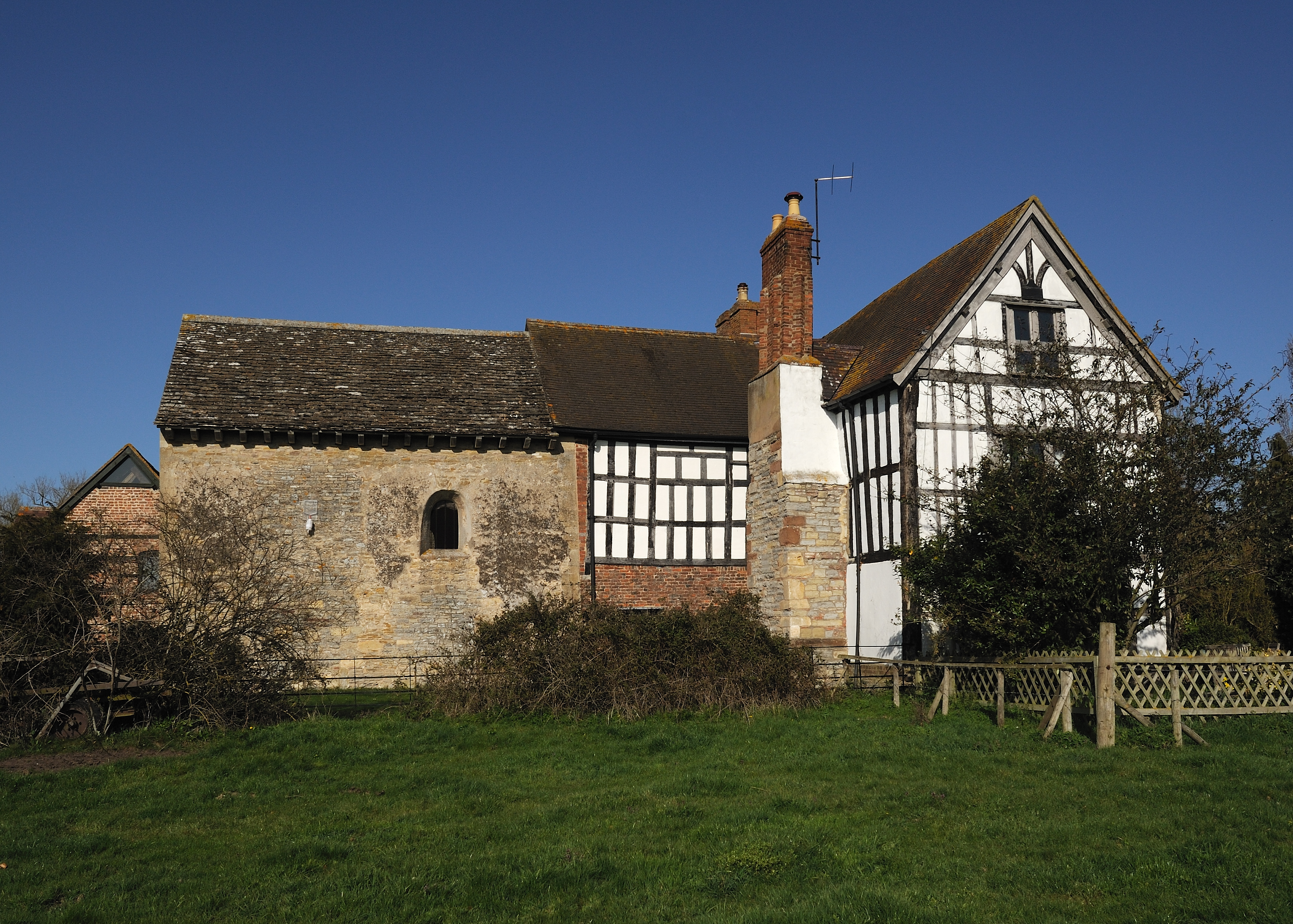 Odda's Chapel (left) and Abbot's Court (right), Deerhurst, Gloucestershire, seen from the southwest. The chapel was dedicated in 1056. The house was attached late in the 16th century.